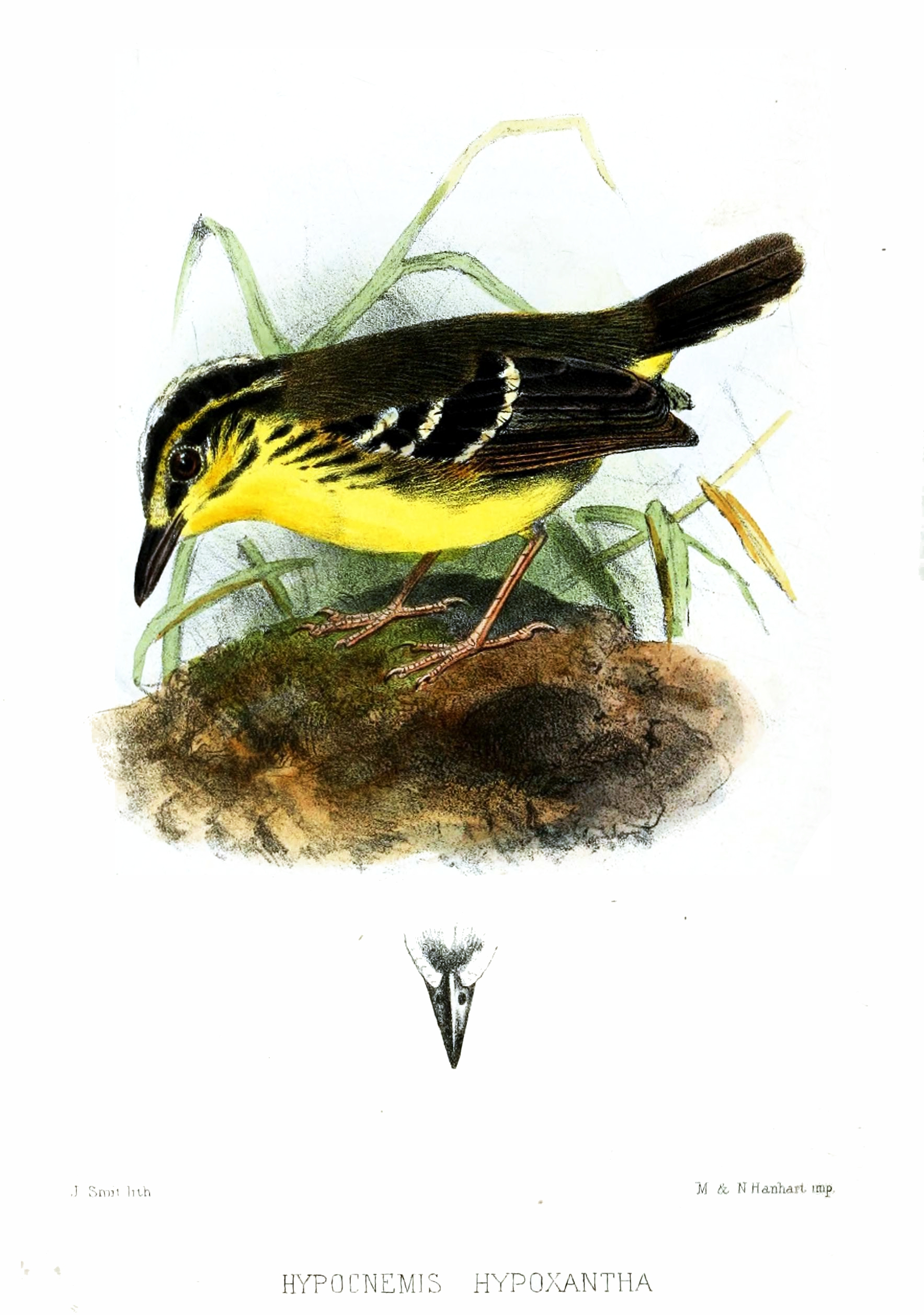 Yellow-browed Antbird, adult with bill from dorsal